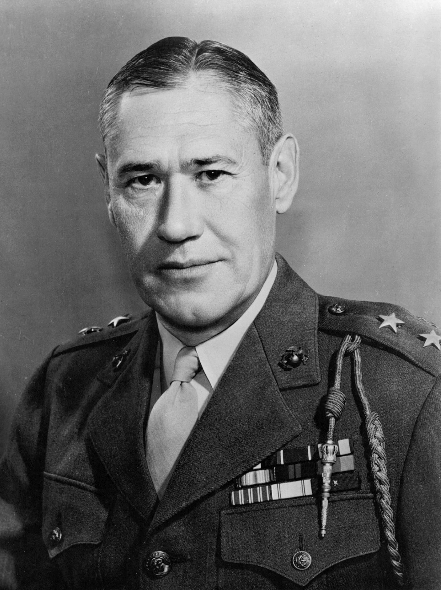 Lt. Gen. Keller E. Rockey, USMC (1888-1970)